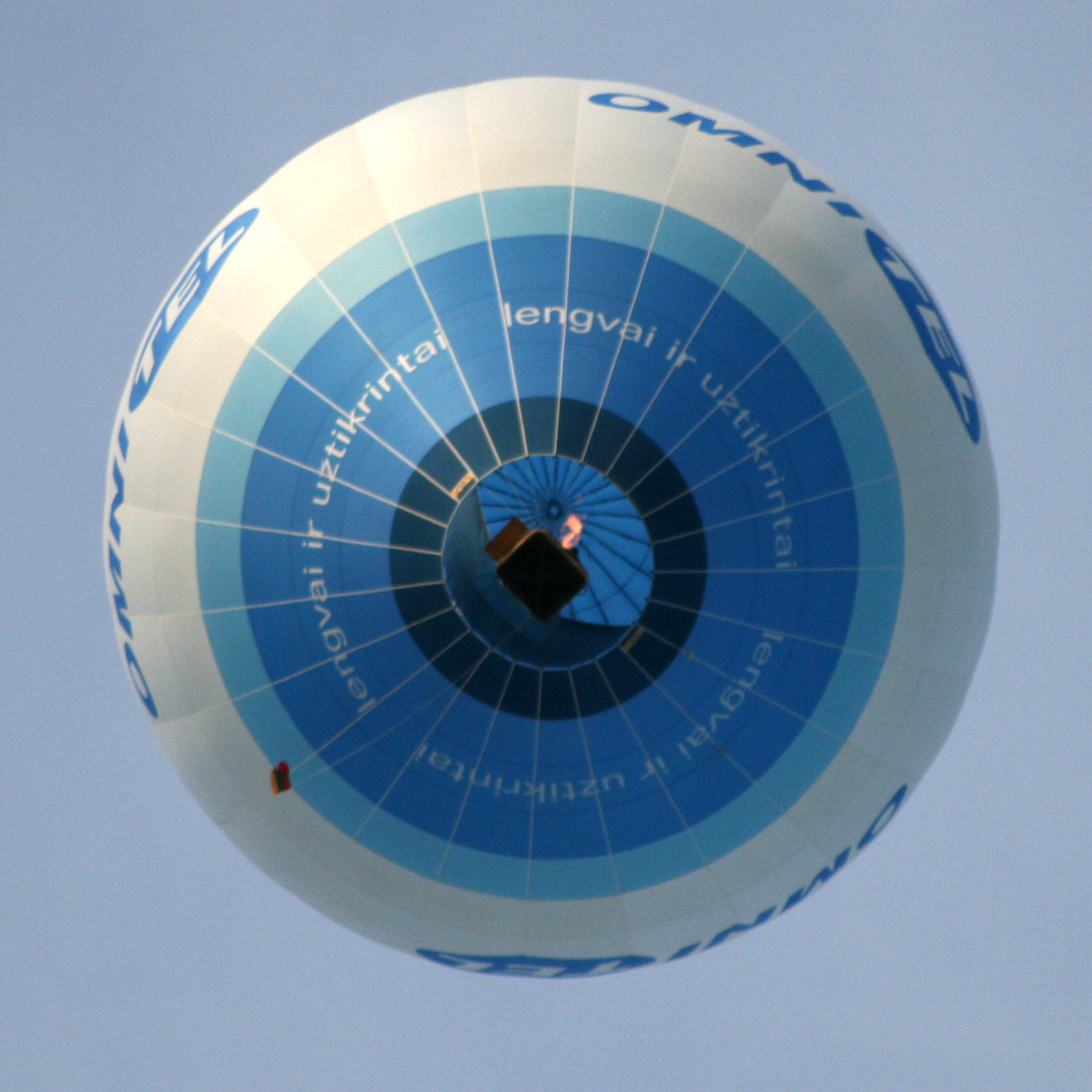 Hot Air Balloon. Omnitel baloon (Lithuania)